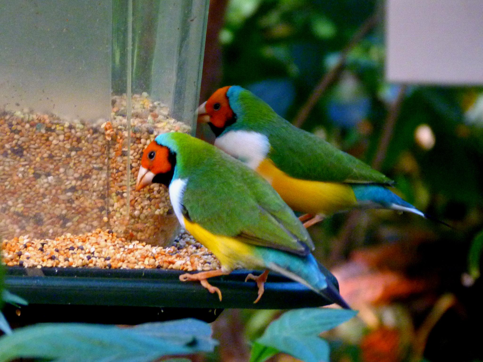 Two Gouldian Finches at Magic Wings Butterfly Conservatory, South Deerfield, Massachusetts, USA.